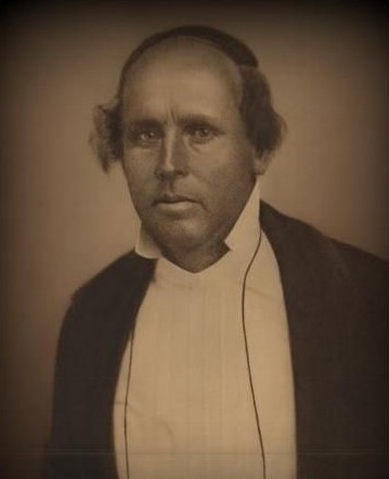 Tandy Walker was a Choctaw Nation member and an officer in the C.S.A.